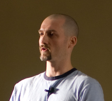 Cropped version of File:Zed Shaw in Montreal in 2008.jpg for the article